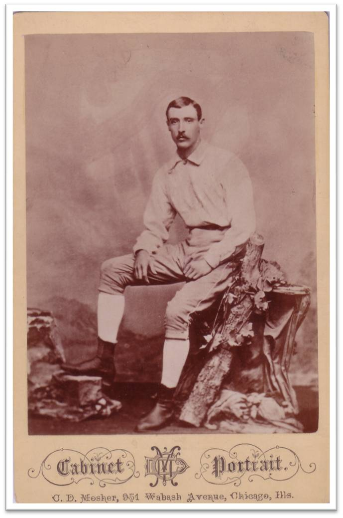 Purchased in auction. Photo from 1871. No copyright exists.